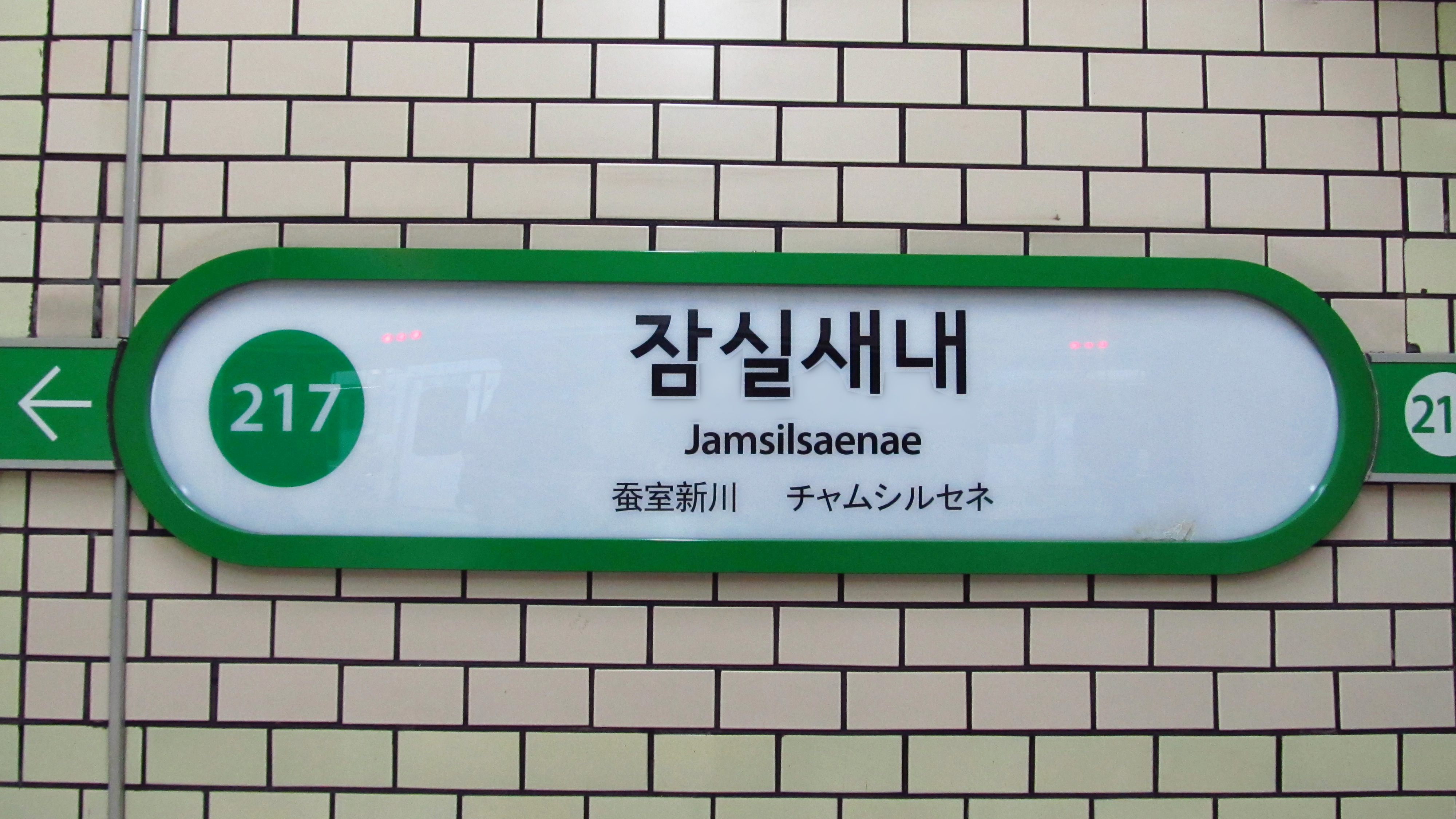 A sign of Jamsilsaenae Station on Seoul Subway Line 2